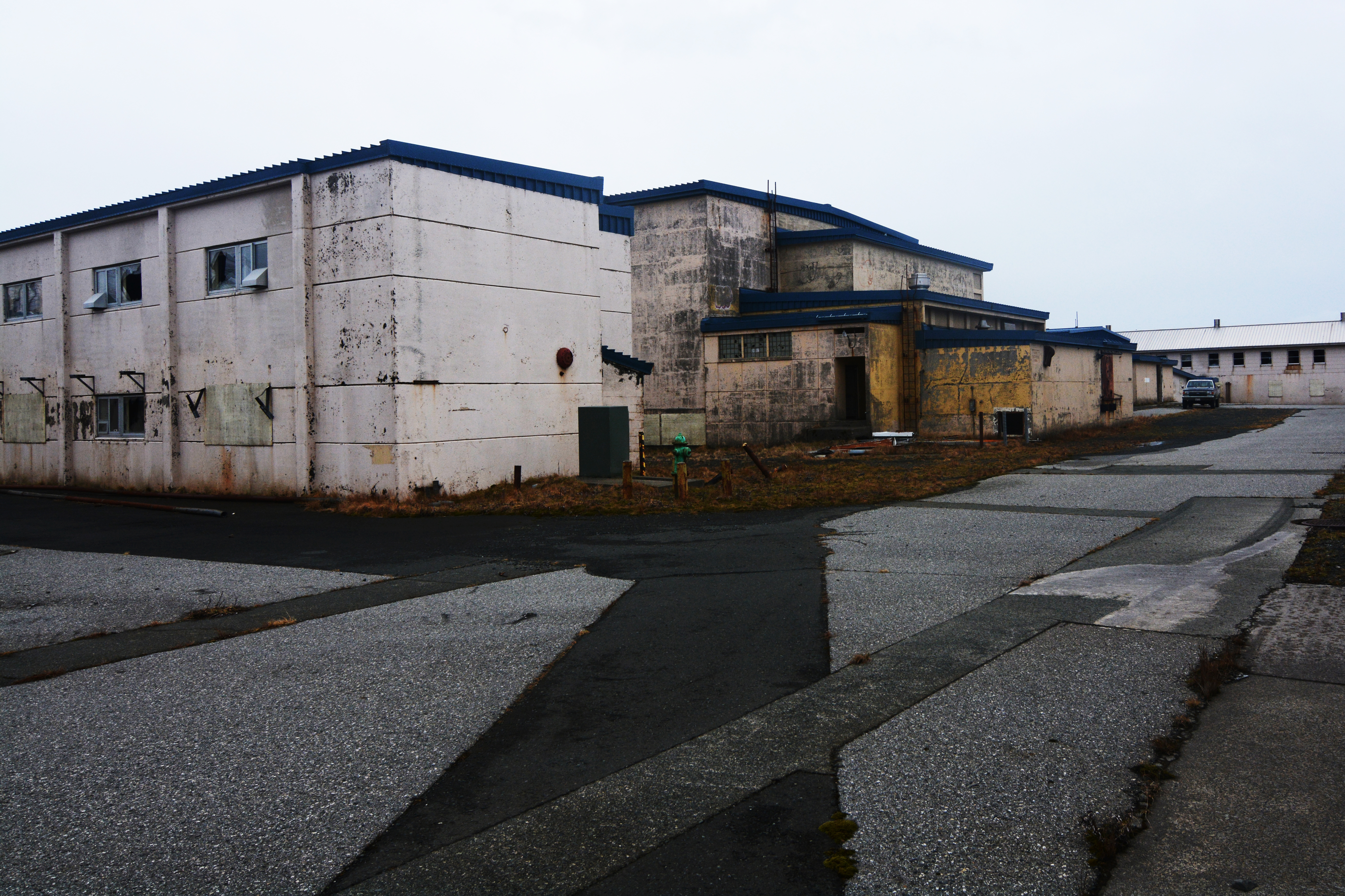 When the military ceased operations on Adak Island, it left behind a large network of structures, most of which are now abandoned and falling into disrepair. The large building in the center houses a basketball court, saunas, squash court, bowling alley, and more. As of 2014, these facilities appeared unusable and probably ruined beyond repair.